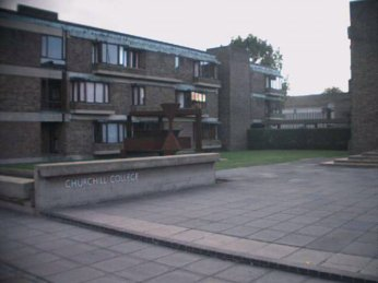 Churchill College, Cambridge, United Kingdom